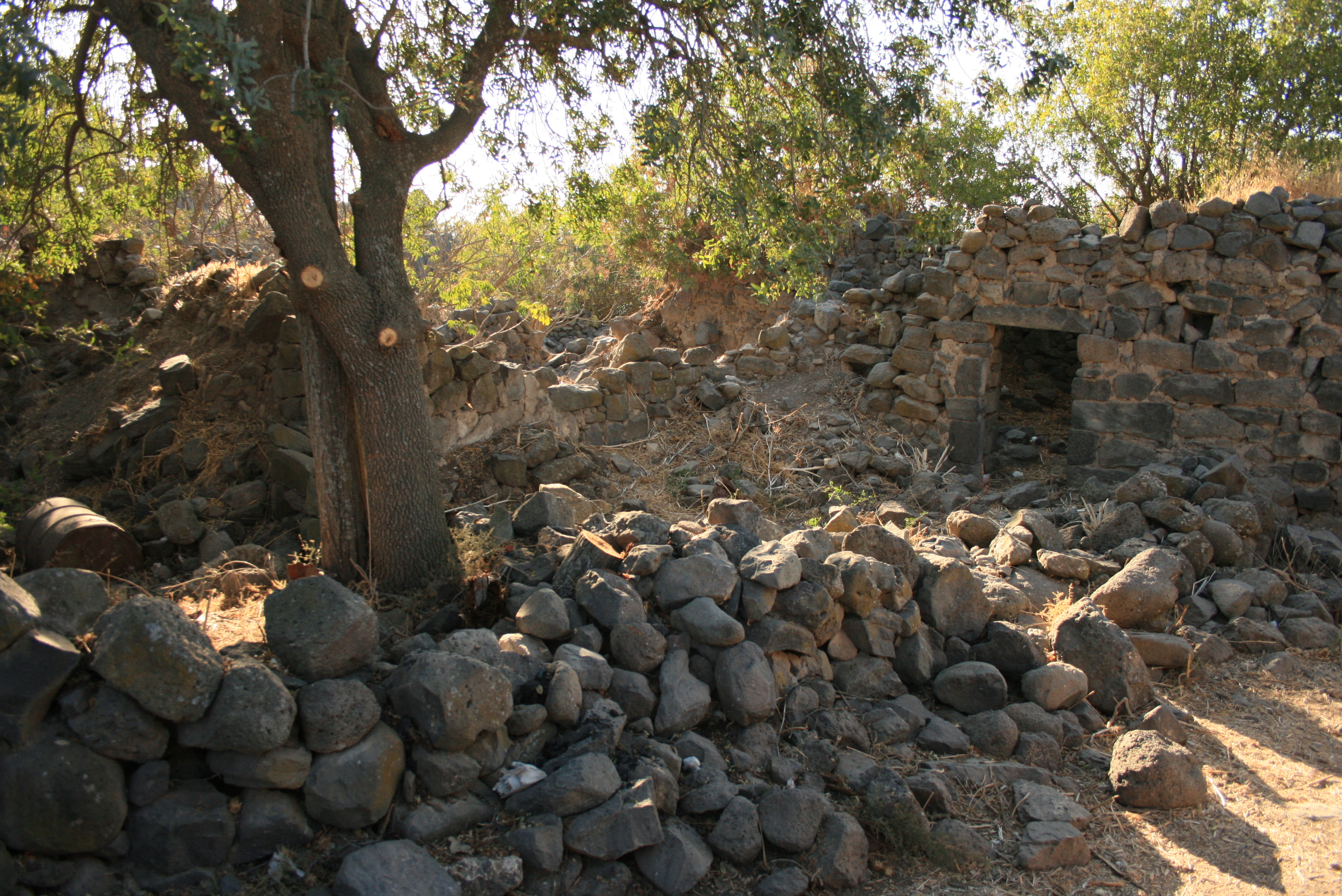 The former Syrian town of Fiq, southern Golan Heights